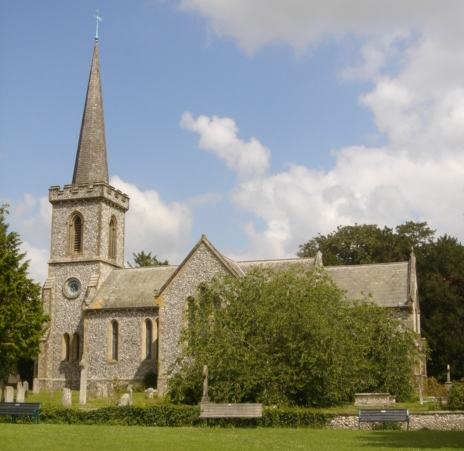 Stanmer parish church, Stanmer Park, City of Brighton and Hove, seen from the south